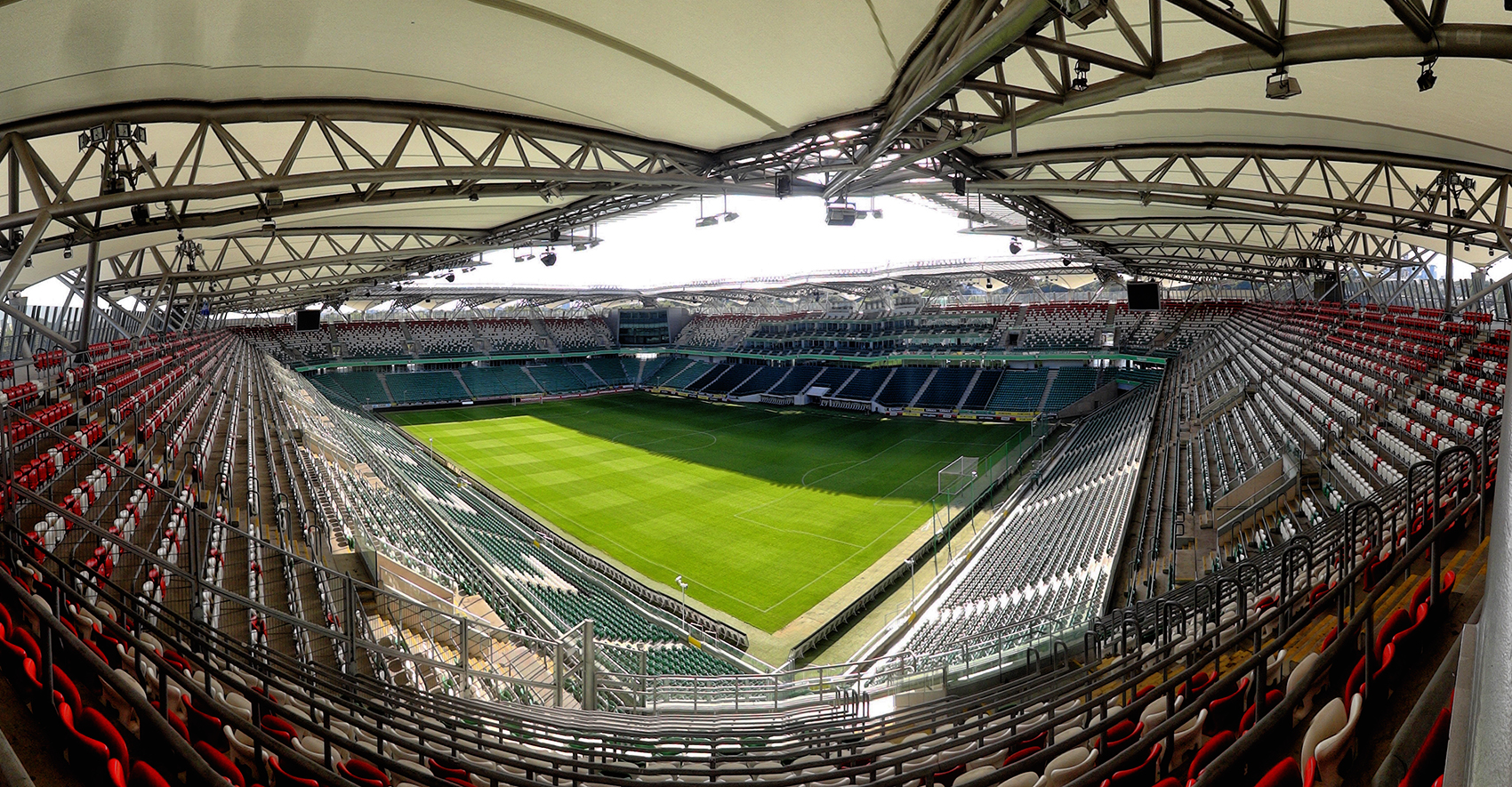 Polish Army Stadium in Warsaw, Poland